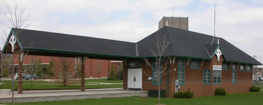 Former Waterloo-St. Jacobs Railway railway station in Waterloo, Ontario. Photograph taken April 29, 2005 and Copyright 2005 by A. James Yolkowski (User:JYolkowski).